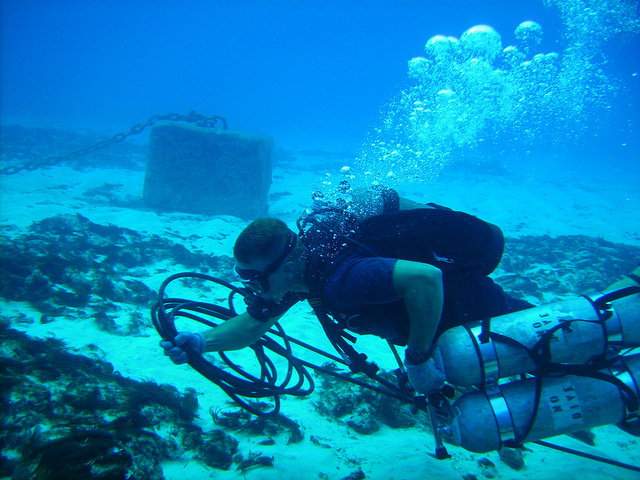 SAIPAN – Petty Officer 1st Class David Partin, a boatswains mate and Coast Guard diver, moves underwater equipment in preparation for lifting operations. Coast Guard Regional Dive Locker West deployed with Coast Guard Cutter Sequoia to work on aids to navigation in Saipan March 18, 2010. U.S. Coast Guard photo by Petty Officer 1st Class Thomas Hill